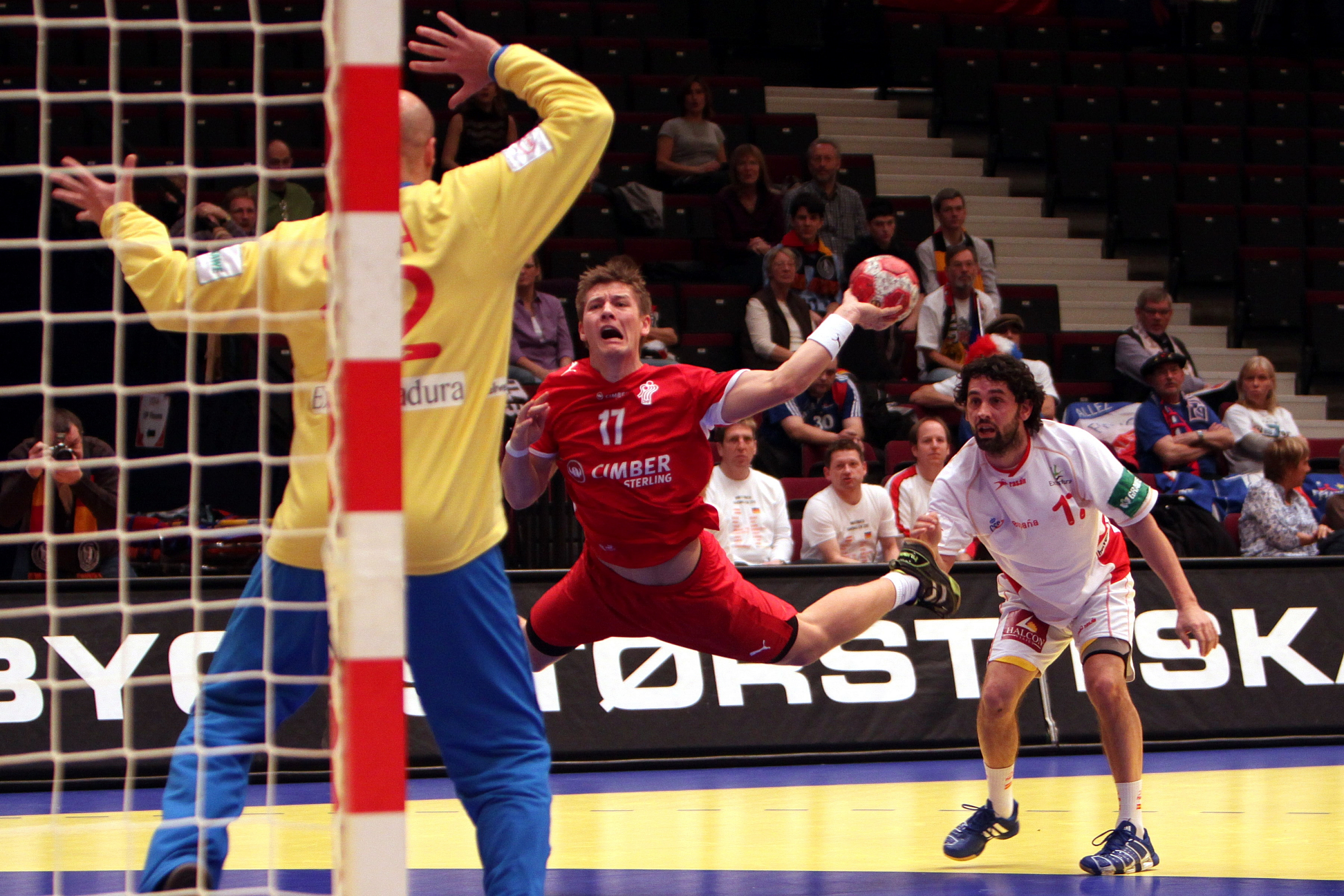 2010 European Men's Handball Championship Final Place 5: Denmark vs Spain 34:27 — Lasse Svan Hansen (Denmark national handball team) scores spectacularly against Spains goalkeeper José Manuel Sierra. Juanín García cannot intervene.